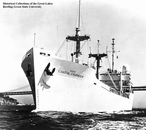 USAFS Coastal Crusader (ORV-16) underway, date and place unknown. US Navy photo from DANFS